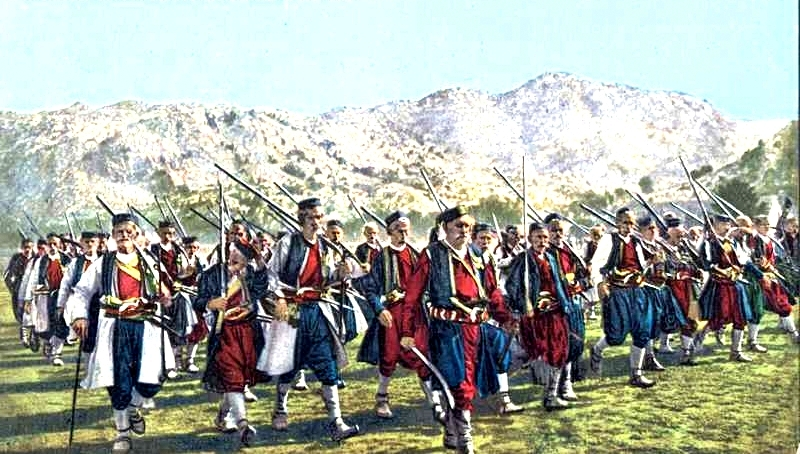 Warriors from Ozrinići in Montenegro.